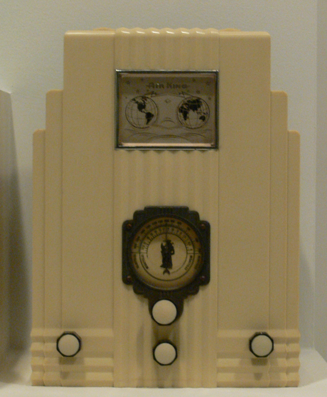 "Air-King" radio (model 66), 1933, Designer: Harold Van Doren and John Gordon Rideout Dallas Museum of Art, Dallas, Texas, object number 1999.50